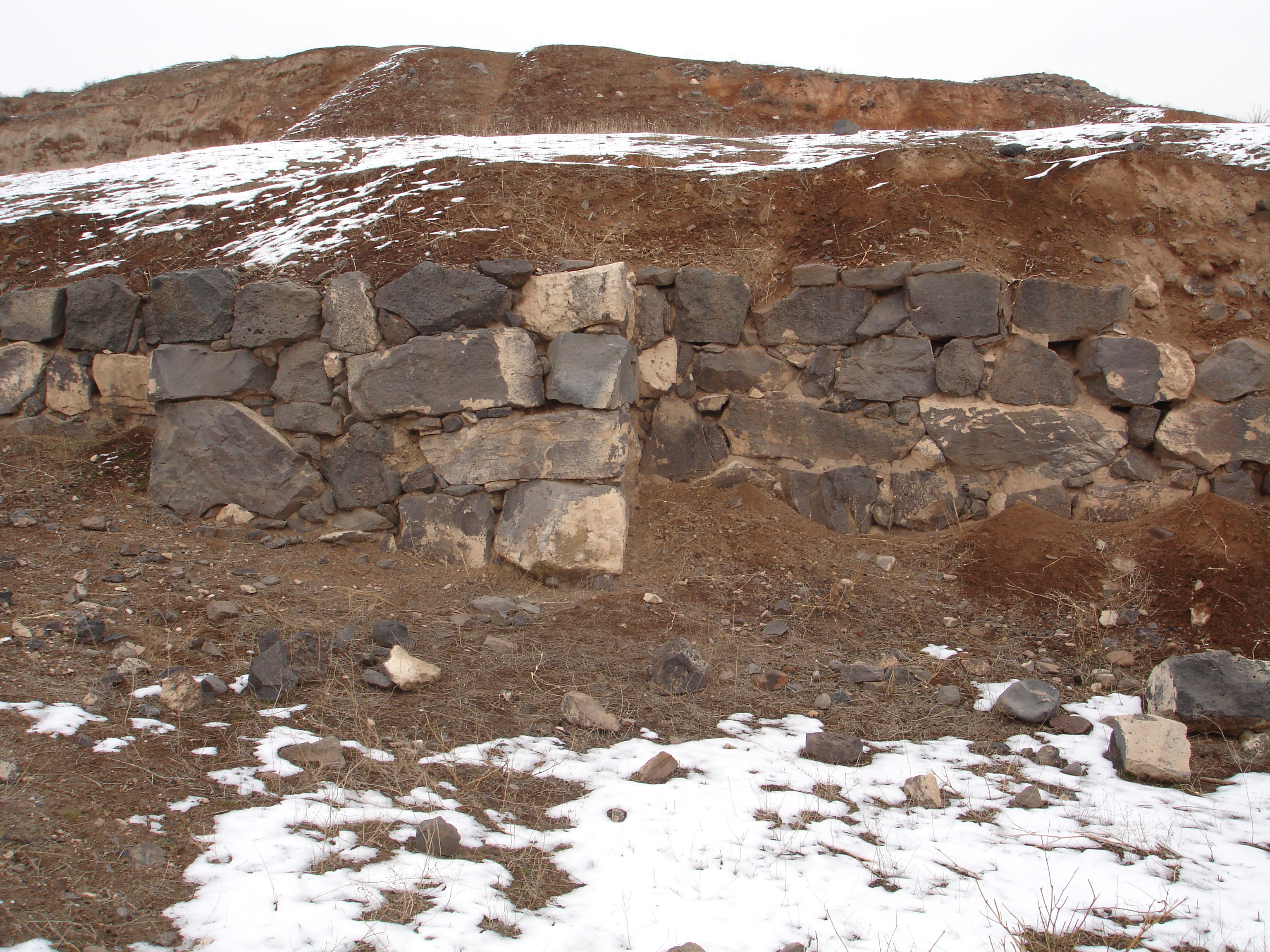 Karmir Blur remnants